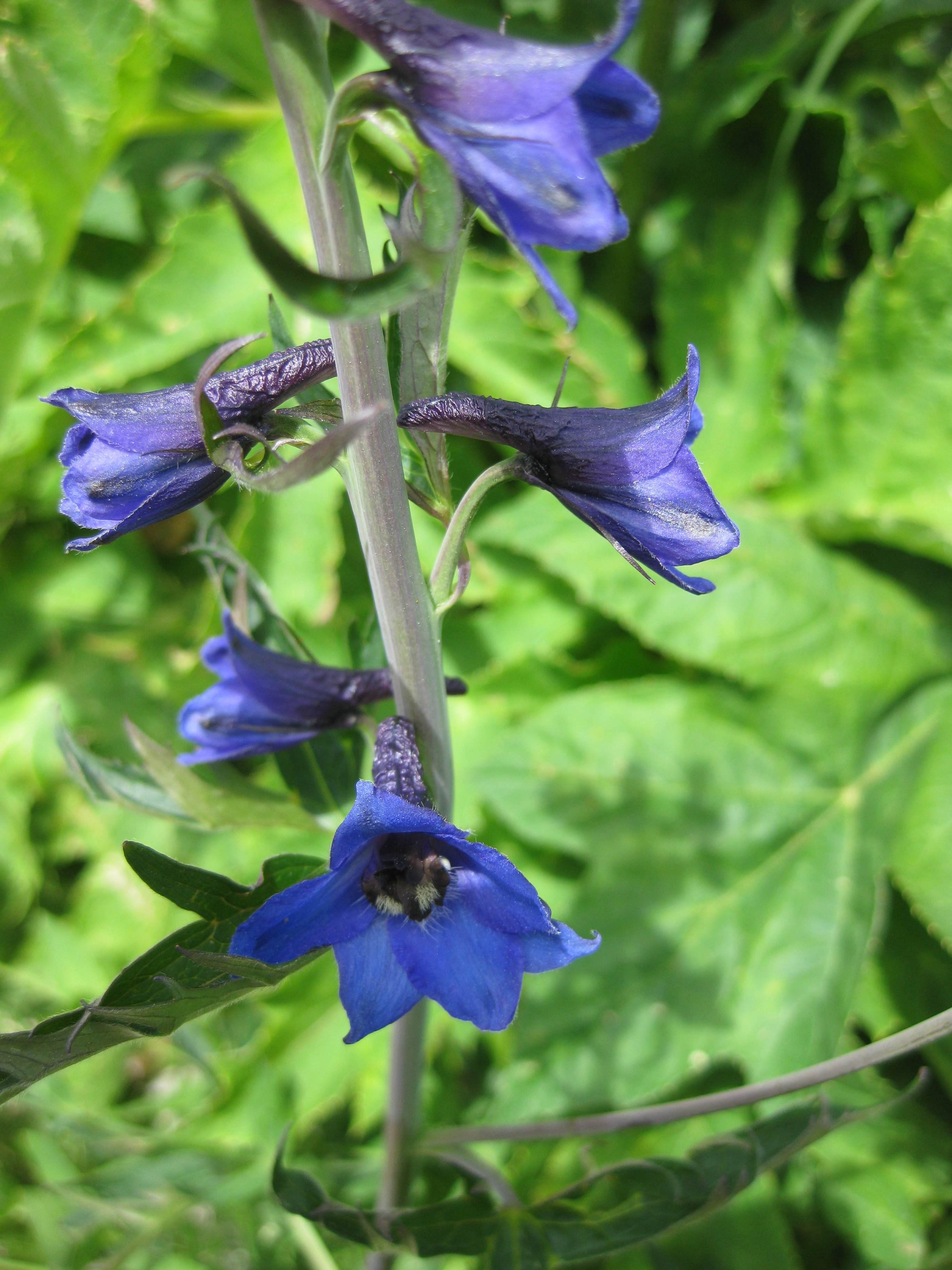 Delphinium elatum in the Jardin Botanique Alpin du Lautaret